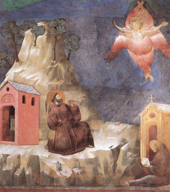 Legend of St Francis